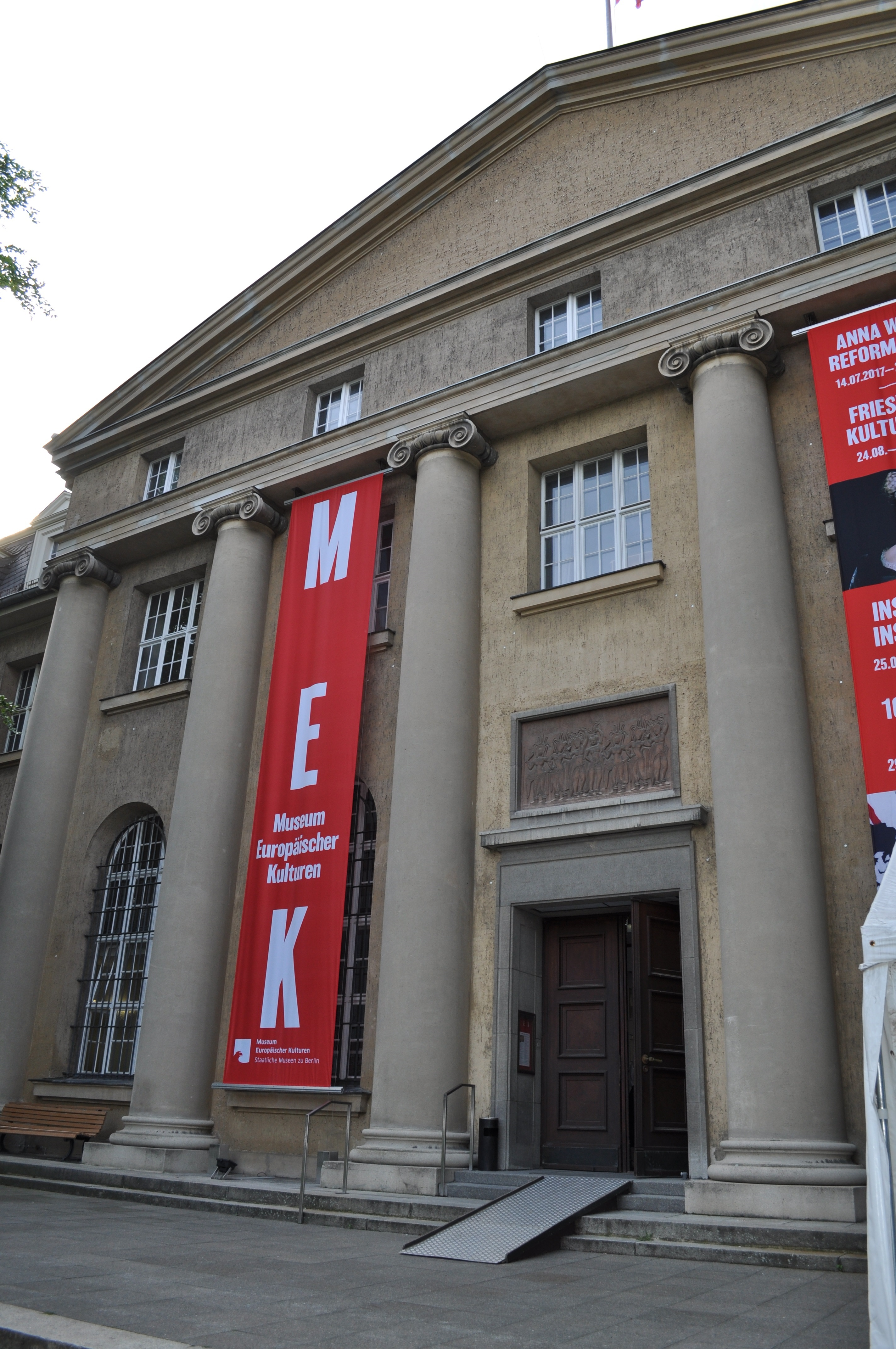 GLAM-Event im Museum Europäischer Kulturen (2017)